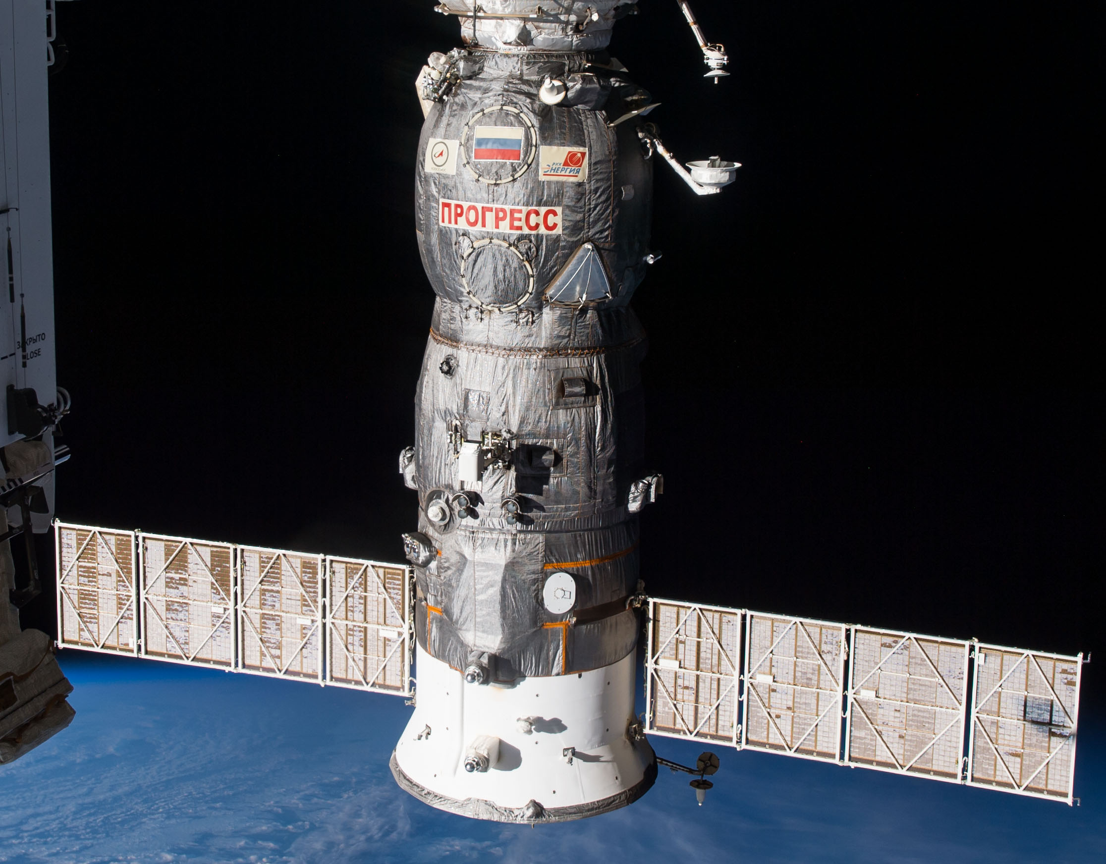 Progress M-24M docked with the ISS during the Russian EVA with Expedition 41 Commander Max Suraev and Flight Engineer Alexander Samokutyaev.